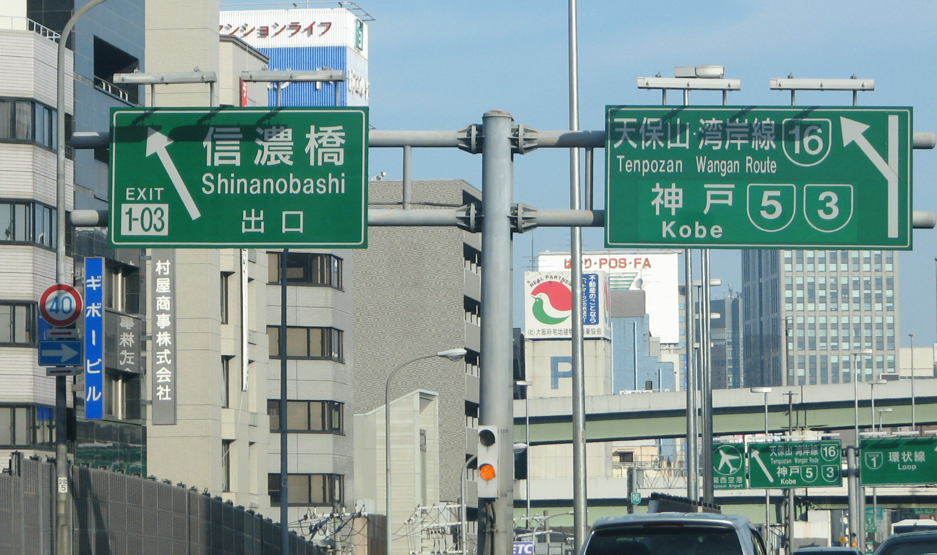 Hanshin Expressway Shinanobashi IC